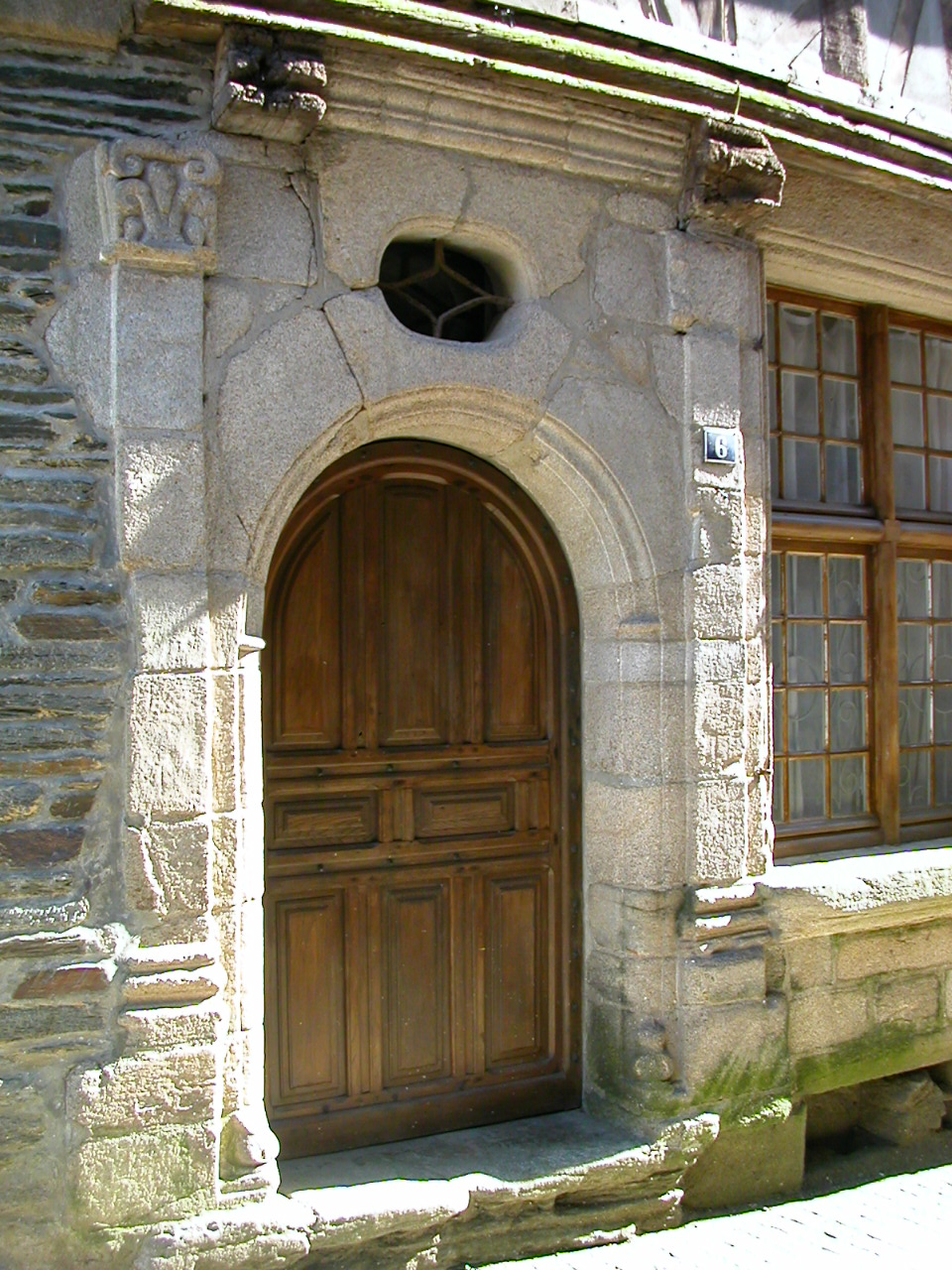 Ancient house of the dukes of Brittany, Ploermael, Morbihan, Brittany .